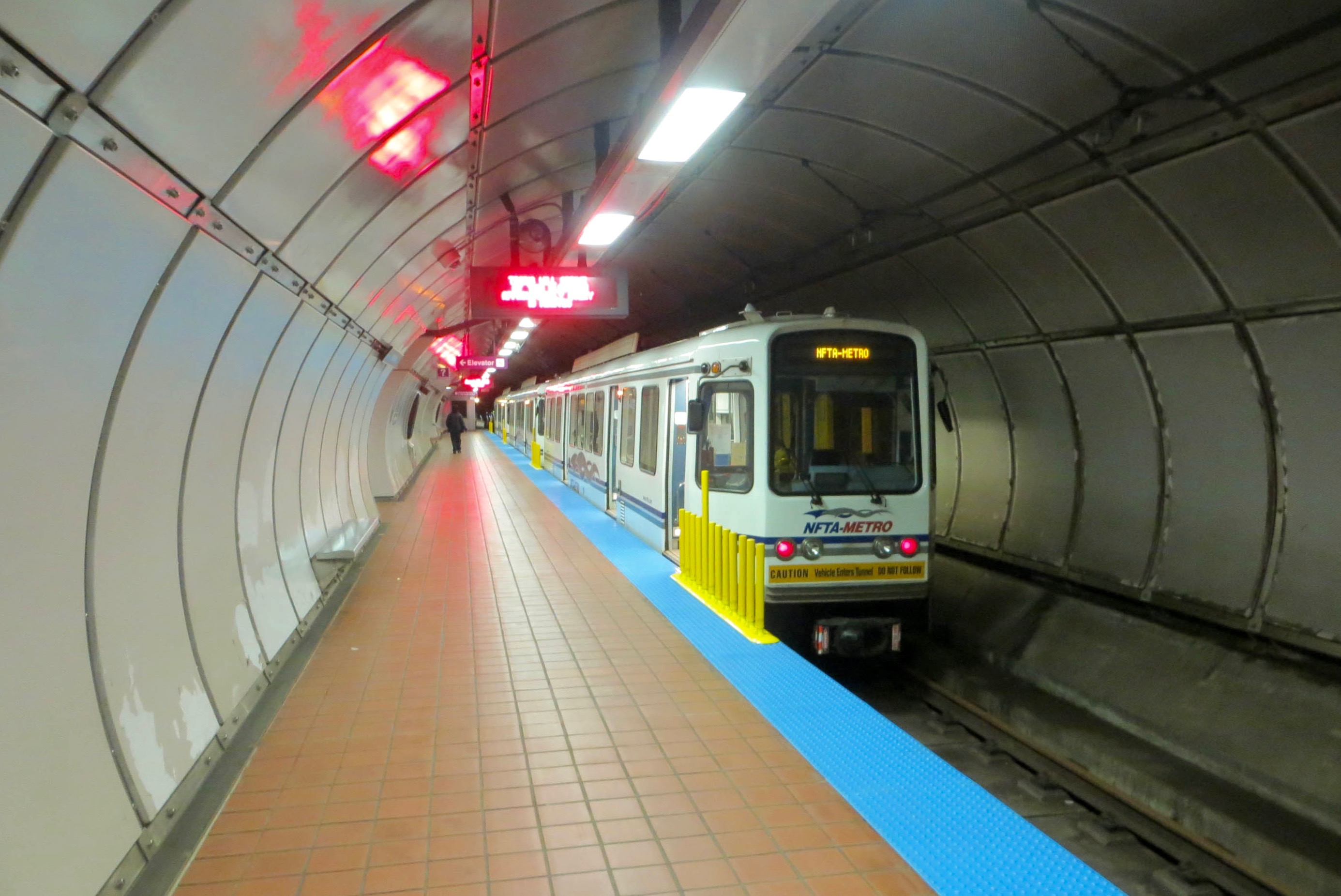 A three-car train laying over at University Station on the Metro Rail system, Buffalo, New York.